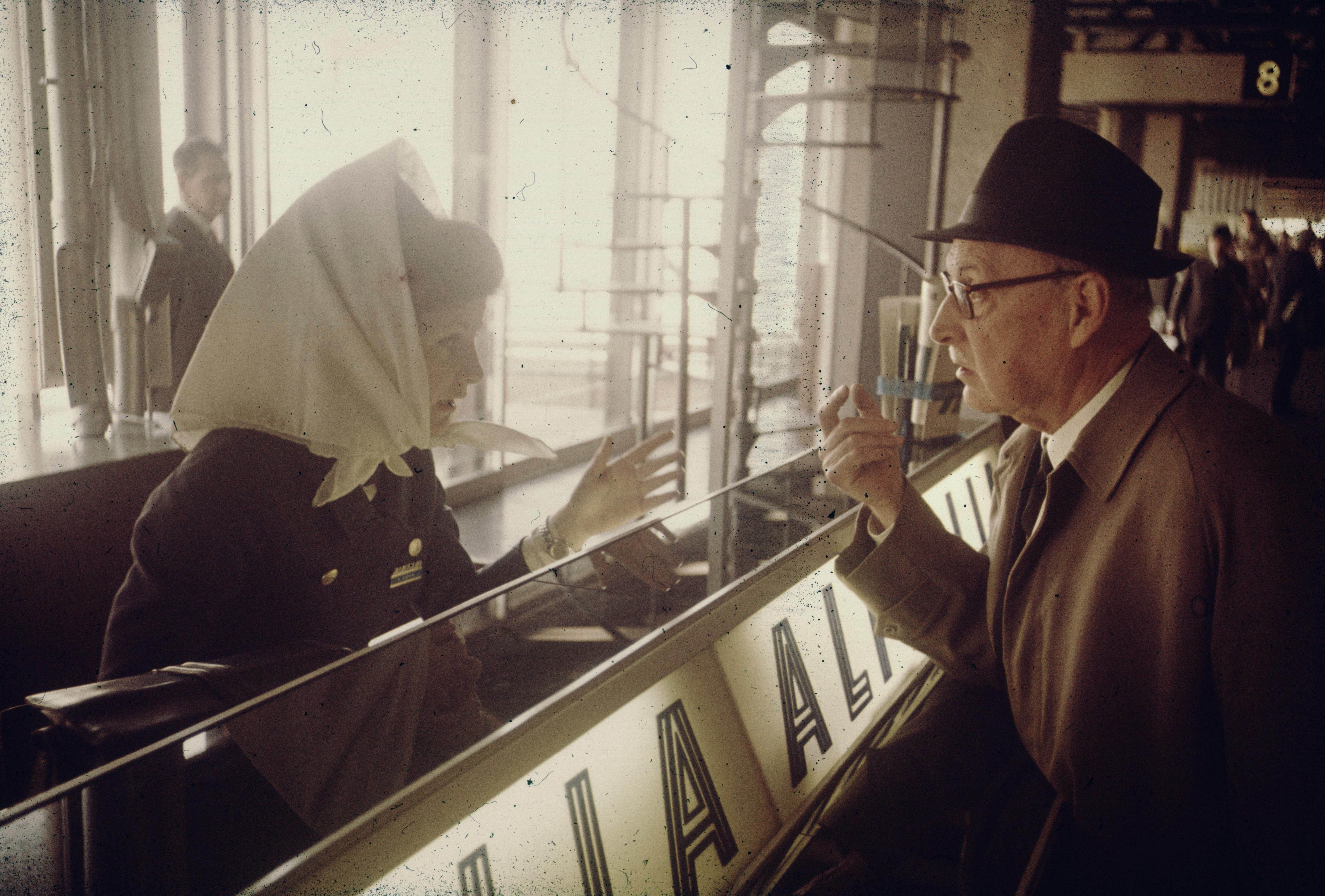 CyberViewX v5.16.55 Model Code=58 F/W Version=1.21 Photography by Victor Albert Grigas (1919-2017)